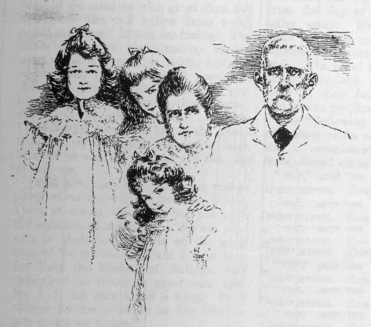 Sketch of the family of Carlo Bertoleoni (self-proclaimed "King of Tavolara", a tiny island in Sardinia), ca. 1890. The Berteleonis were the only inhabitants of the island (and "kingdom"), where they sustained themselves by farming goats.